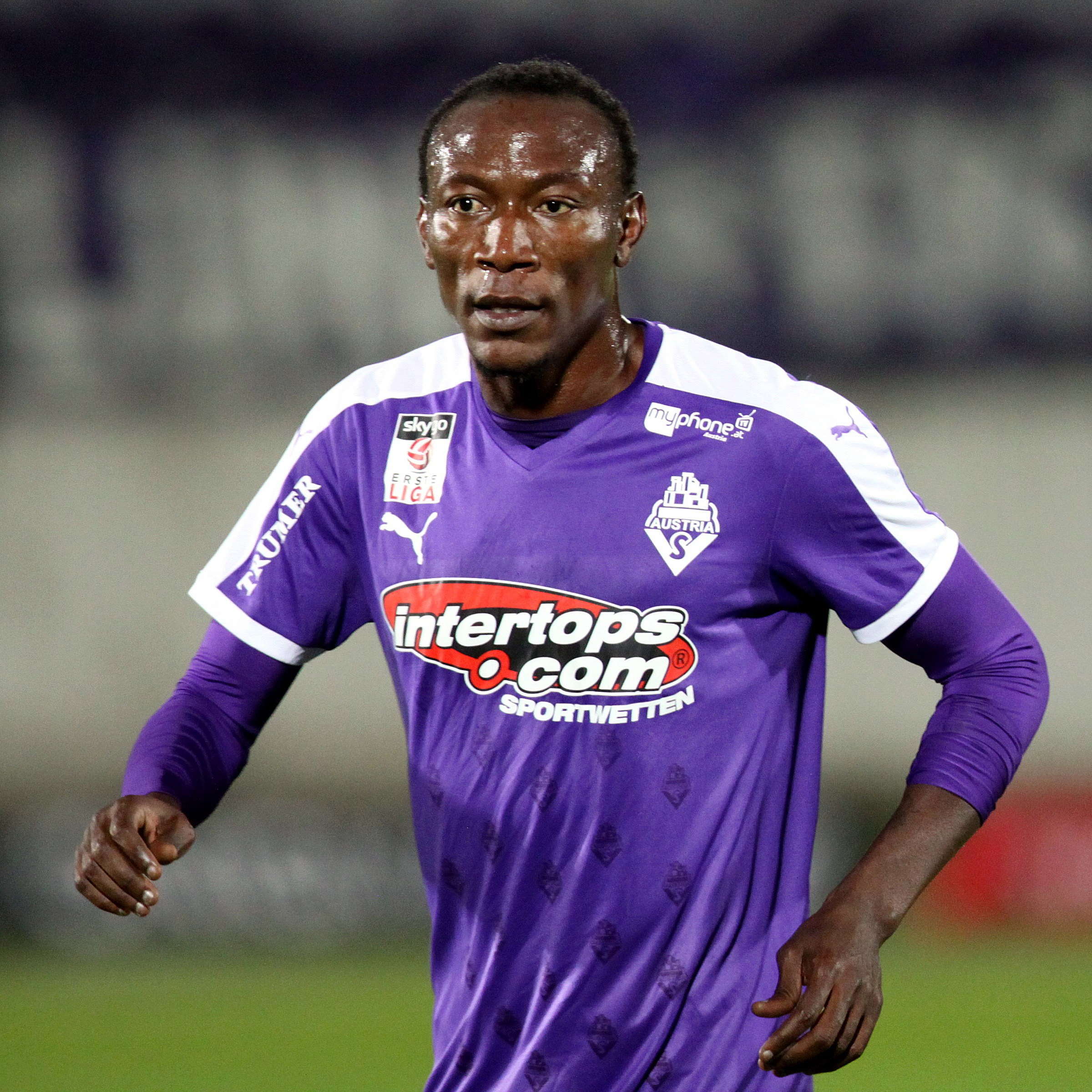 Match of the Erste Liga – SC Wiener Neustadt (blue/white shirts) vs. SV Austria Salzburg (purple shirts and black/white shirts) 2–0 (1–0) on 2015-10-02 in the Stadion in Wiener Neustadt – The photo shows Somen Tchoyi.